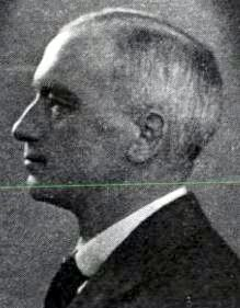 Norwegian physicist Olaf Frivold (1885–1944)